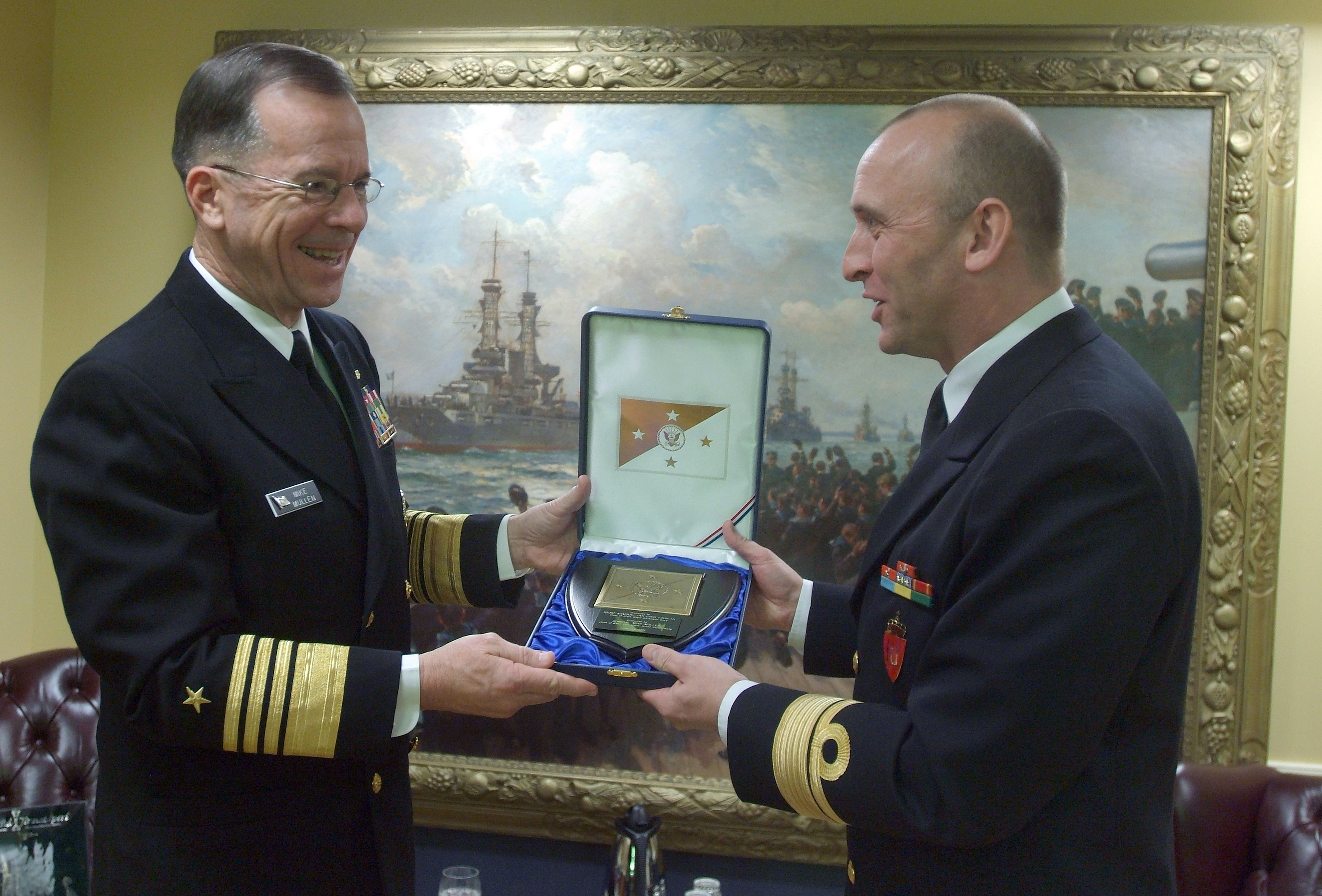 Washington, D.C. (Feb. 14, 2006) - Chief of Naval Operations (CNO) Adm. Mike Mullen, left, exchange plaques with Royal Norwegian Navy Chief of Staff, Rear Adm. Jan Eirik Finseth during an office call at the Pentagon as part of Finseth's official visit to the United States. U.S. Navy photo by Chief Photographer's Mate Johnny Bivera (RELEASED)